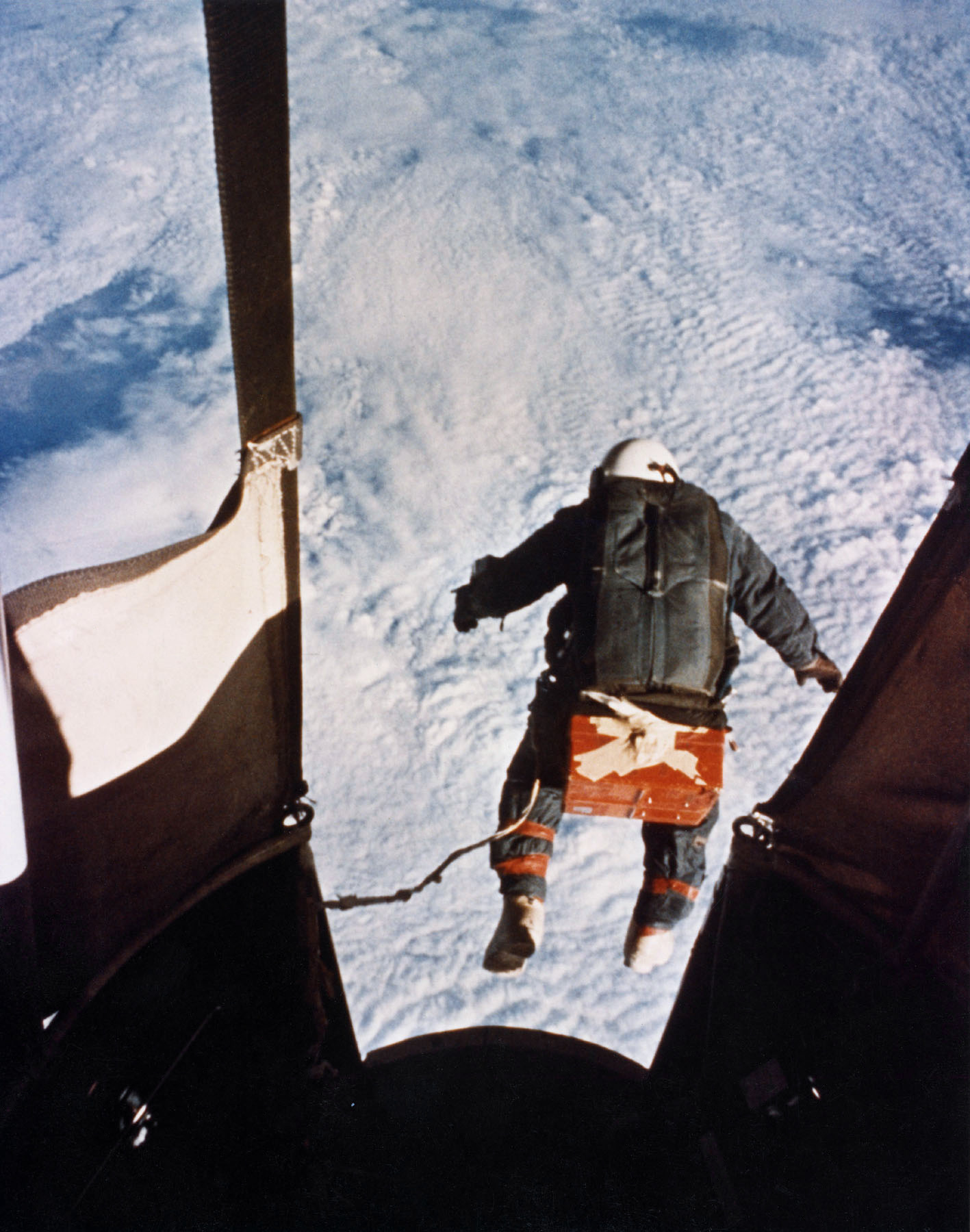 An automatic camera captures Capt. (later Col.) Joseph Kittinger just as he stepped from the balloon-supported Excelsior gondola on August, 16, 1960, at an altitude of 102,800 feet (31,300 m).